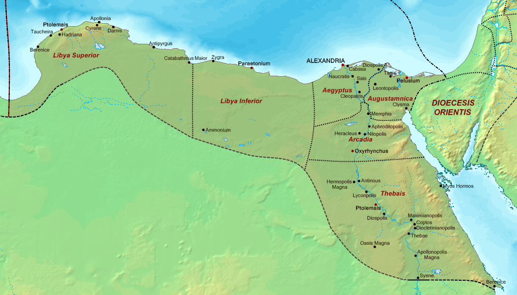 Map of the Diocese of Egypt (Dioecesis Aegypti) ca. 400 AD, showing the subordinate provinces and the major cities.